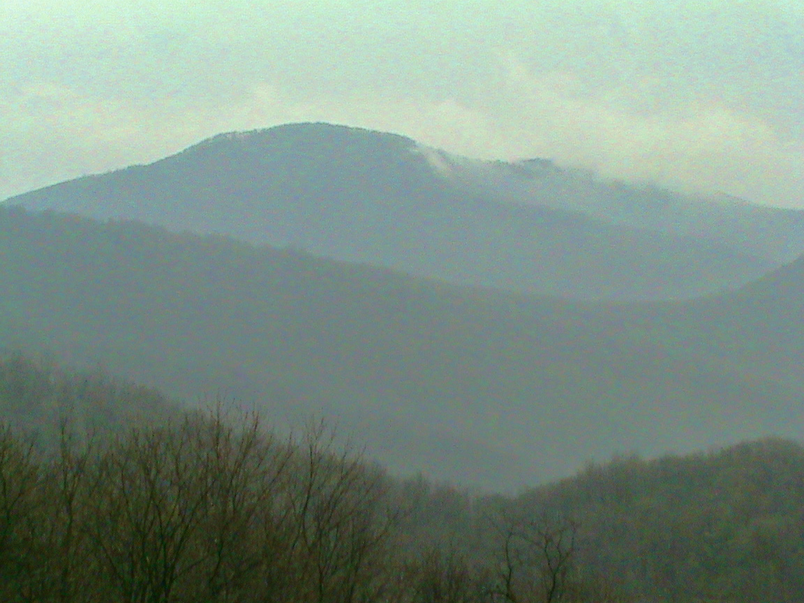 View of Pignut Mountain from Thornton Hollow Overlook on Neighbor Mountain. Photo by Kevin Borland.